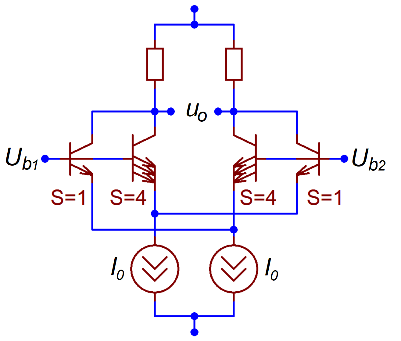 The simplest way to linearize and inherently non-linear long-tailed pair is to use emitter degeneration resistors. However, these resistors generate Johnson noise and worsen signal-to-noise ratio. One possible alternative is the use of dual asymmetric long-tailed pairs. If transistors areas are scaled precisely in 1:4 ratio, then the third harmonics generated by each stage cancel each other out. Signal-to-noise ratio (counting only Johnson noise) is 6 dB lower than in a simple, un-degenerated long-tailed pair fed with the same total current, gain is 1.5 times lower.